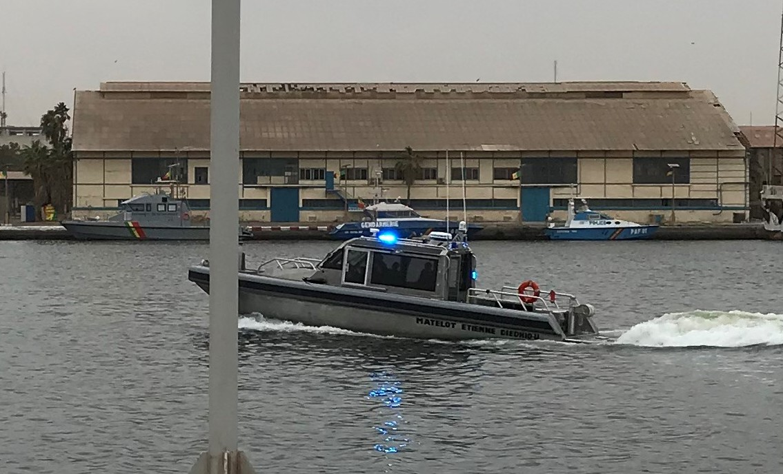 Senegalese Navy personnel conduct a demonstration of a 38 foot Defiant class patrol boat during a handover ceremony Feb. 8, 2018 in Dakar Senegal. The boats were donated and funded by the U.S. Africa Command Counternarcotic and Transnational Threats Programs Division.